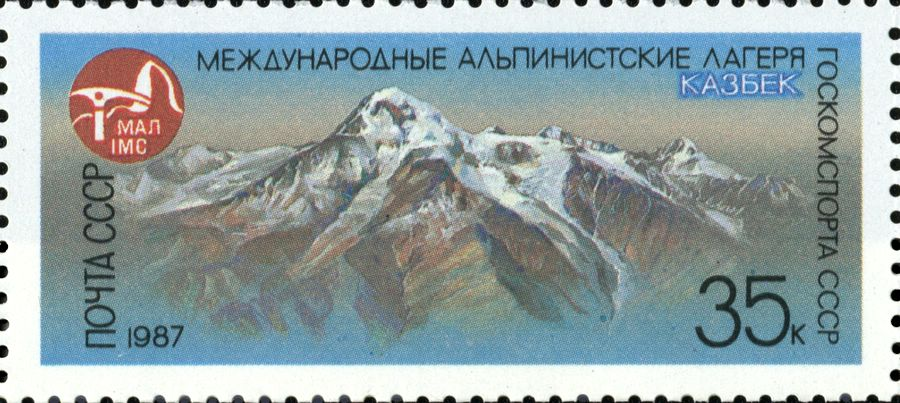 A USSR stamp, USSR Mountaineers' Camp. Date of issue: 4th February 1987. Designer: I. Kozlov Michel catalogue number: 5688. Scott 5535 35 K. multicoloured. Mountain Kazbek, Caucasus.